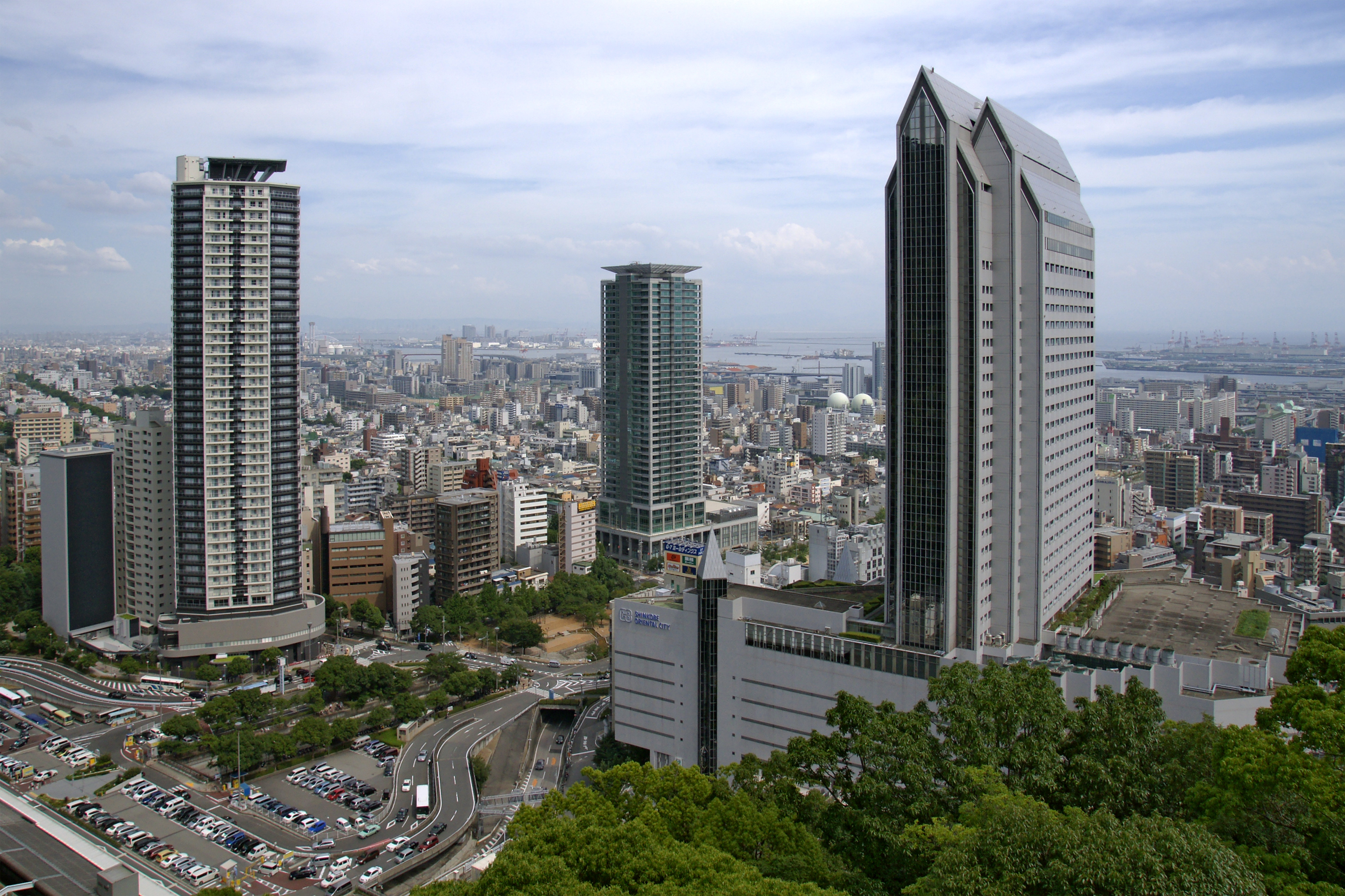 Shin-Kobe, Kobe, Hyogo prefecture, Japan